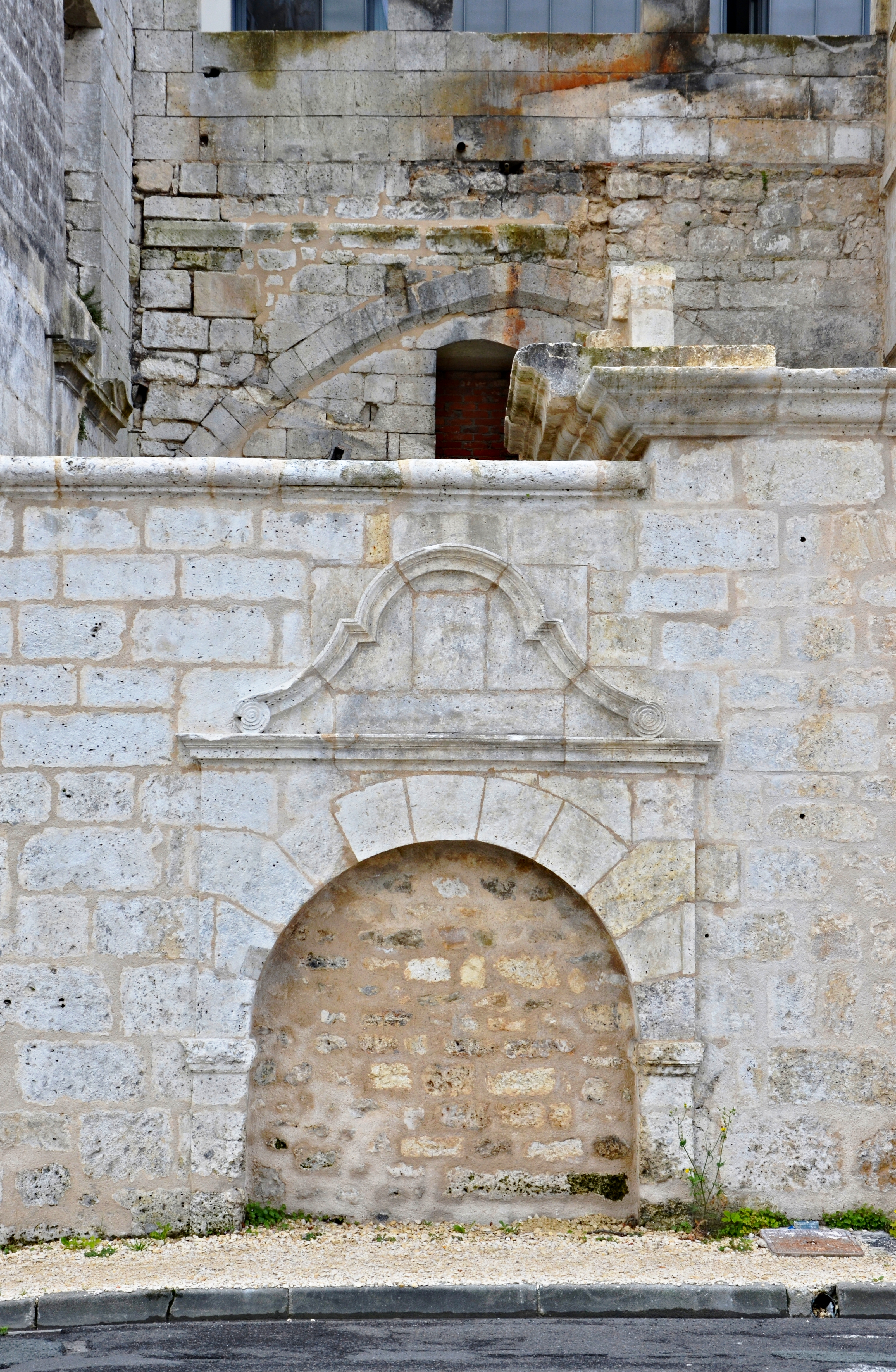 Former entrance (recently renewed) of the abbot's lodgings, abbey of Saint-Cybard (13th,15th and 17th centuries). Angoulême, Charente, France. .